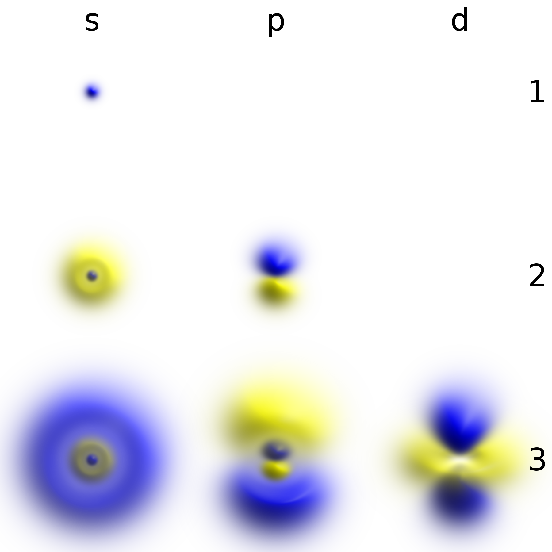 Collection of six atomic hydrogen-like single-electron orbitals showing 1s, 2s, 2p, 3s, 3p and 3d orbitals. The angular momentum quantum number l is denoted in each column, using the usual spectroscopic letter code ("s" means l=0; "p": l=1; "d": l=2). The main quantum number n (=1,2,3,...) is marked to the right of each row. All orbitals are aligned along the z-axis and the magnetic quantum number m has been set to 0. The images are 3D renderings of the spatial density distribution of |𝜓|² with the color depicting the phase of 𝜓. The spatial distribution is smooth and vanishes for large radii. The cloud is a more realistic representation of an orbital than the more common solid-body approximations.